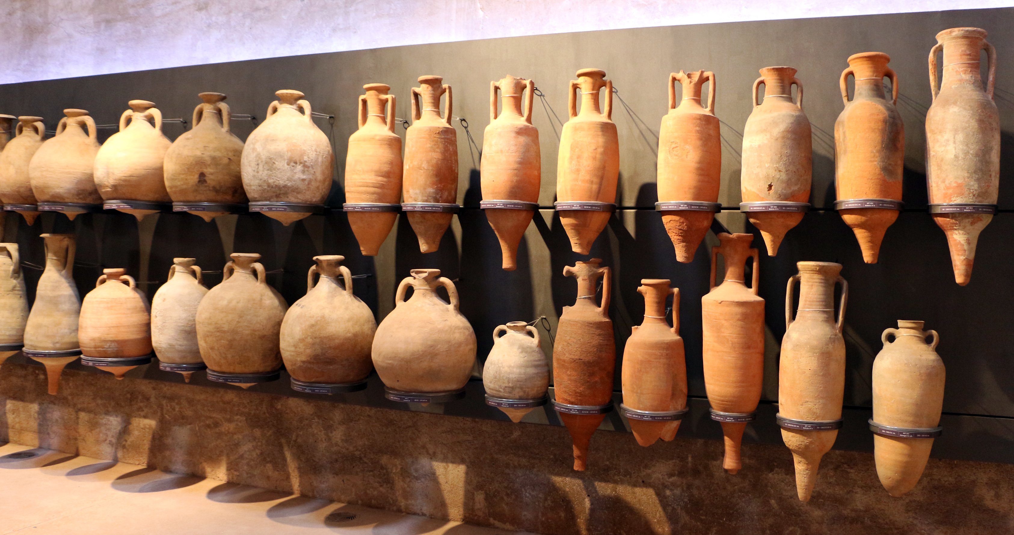 Museo dei Fori Imperiali, Roma